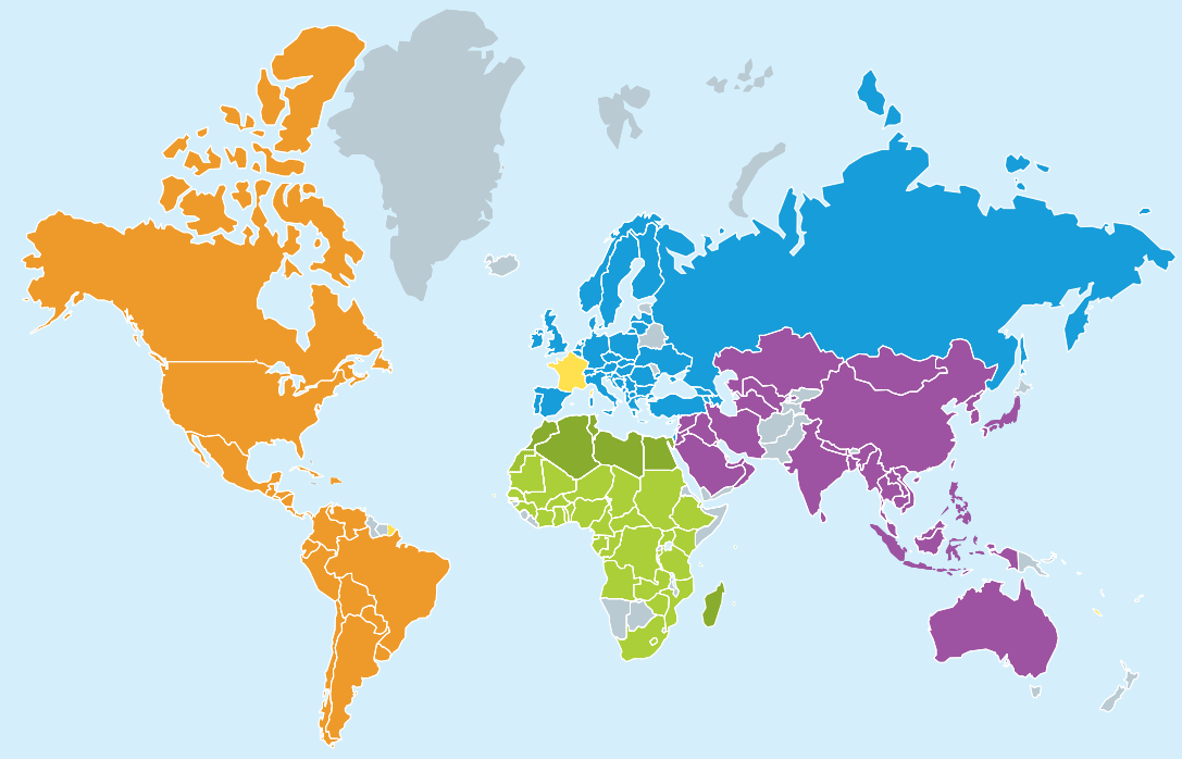 French international schools network - 5 geographical areas